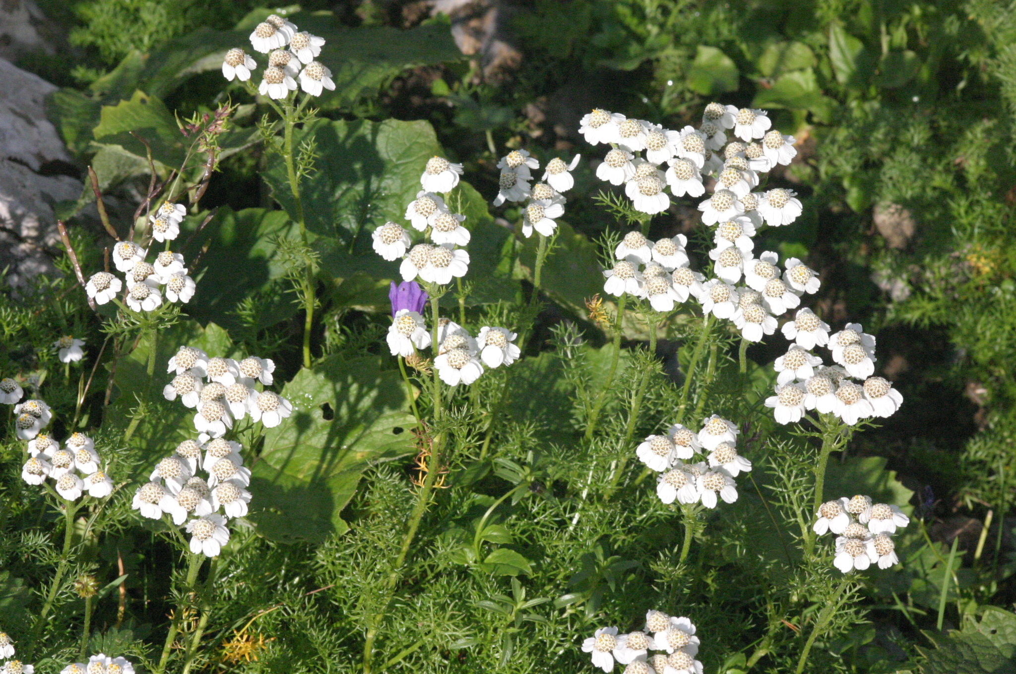 Achillea clusiana